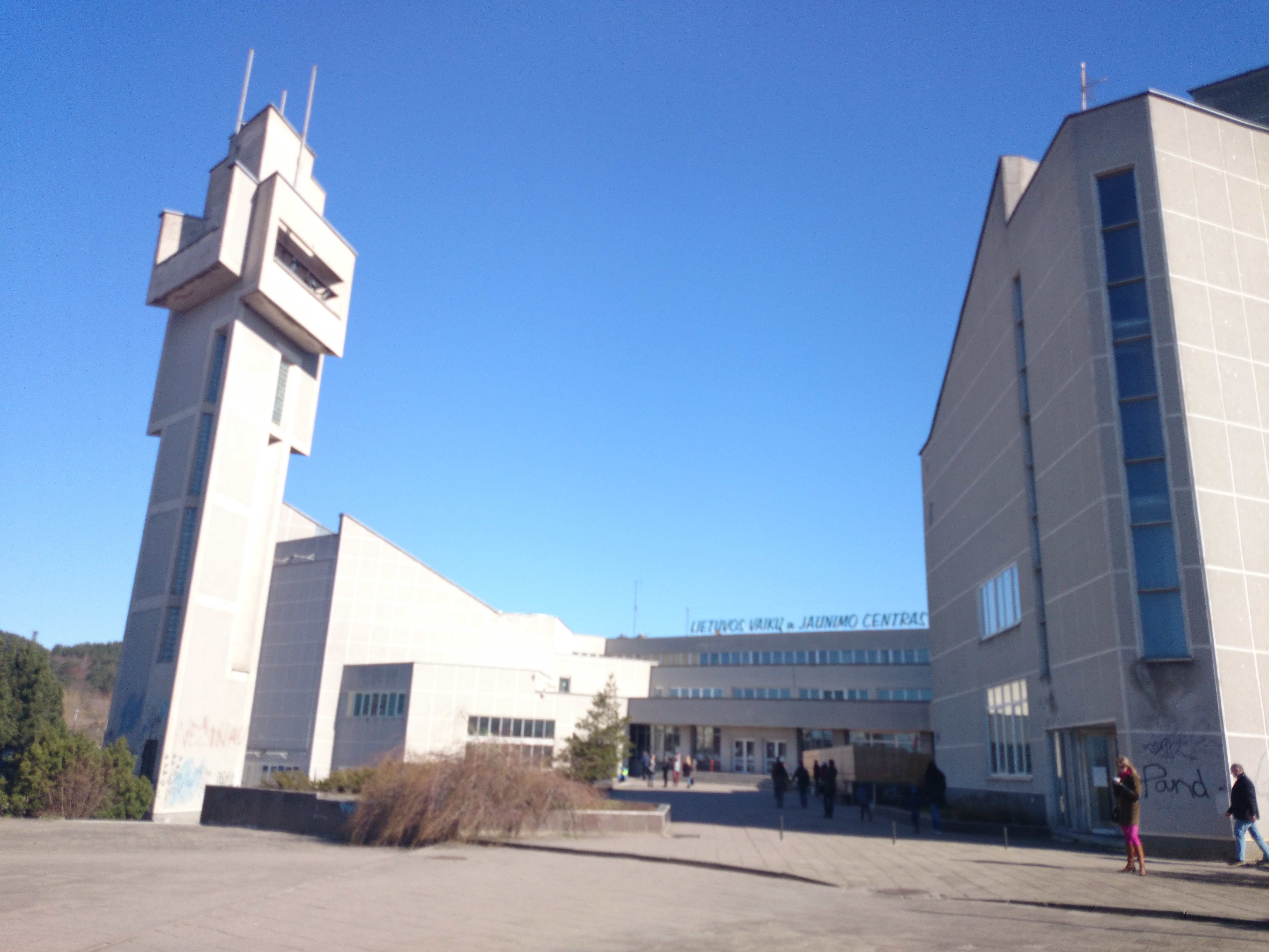 Vaikų ir jaunimo centras